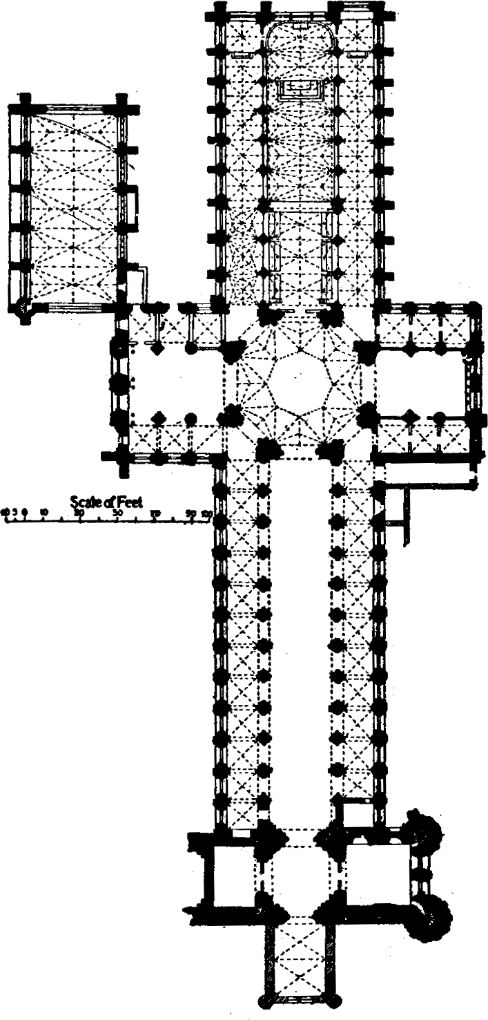 Floor plan of Ely Cathedral